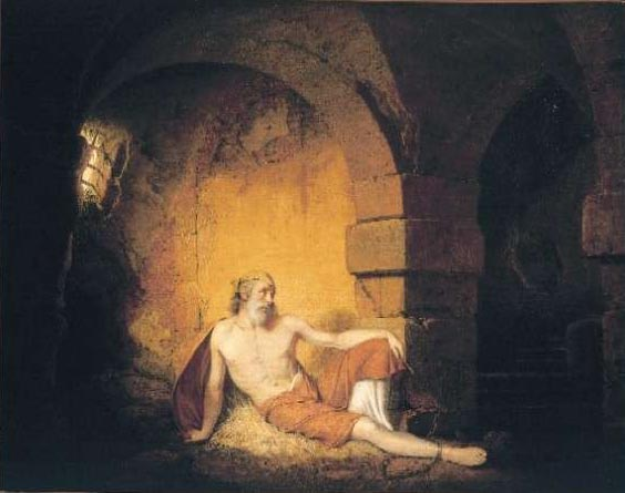 The Captive 1775-77 in Derby Museum